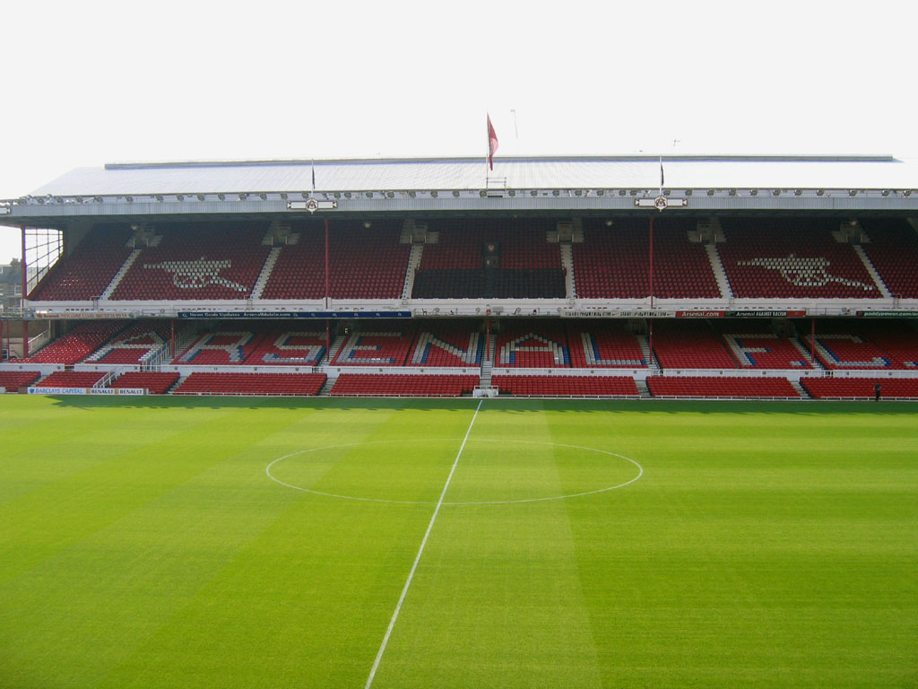 The West Stand of Arsenal Stadium, Highbury, London.